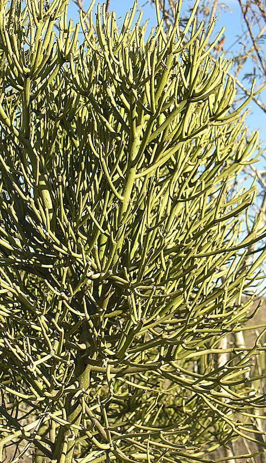 Native to southwestern U.S. and northern Mexico. Photo from Pescadero area of Baja California. Koeberliniaceae Family